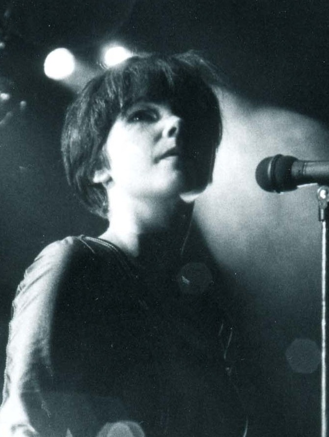 Björk (of the Sugarcubes) in Japan